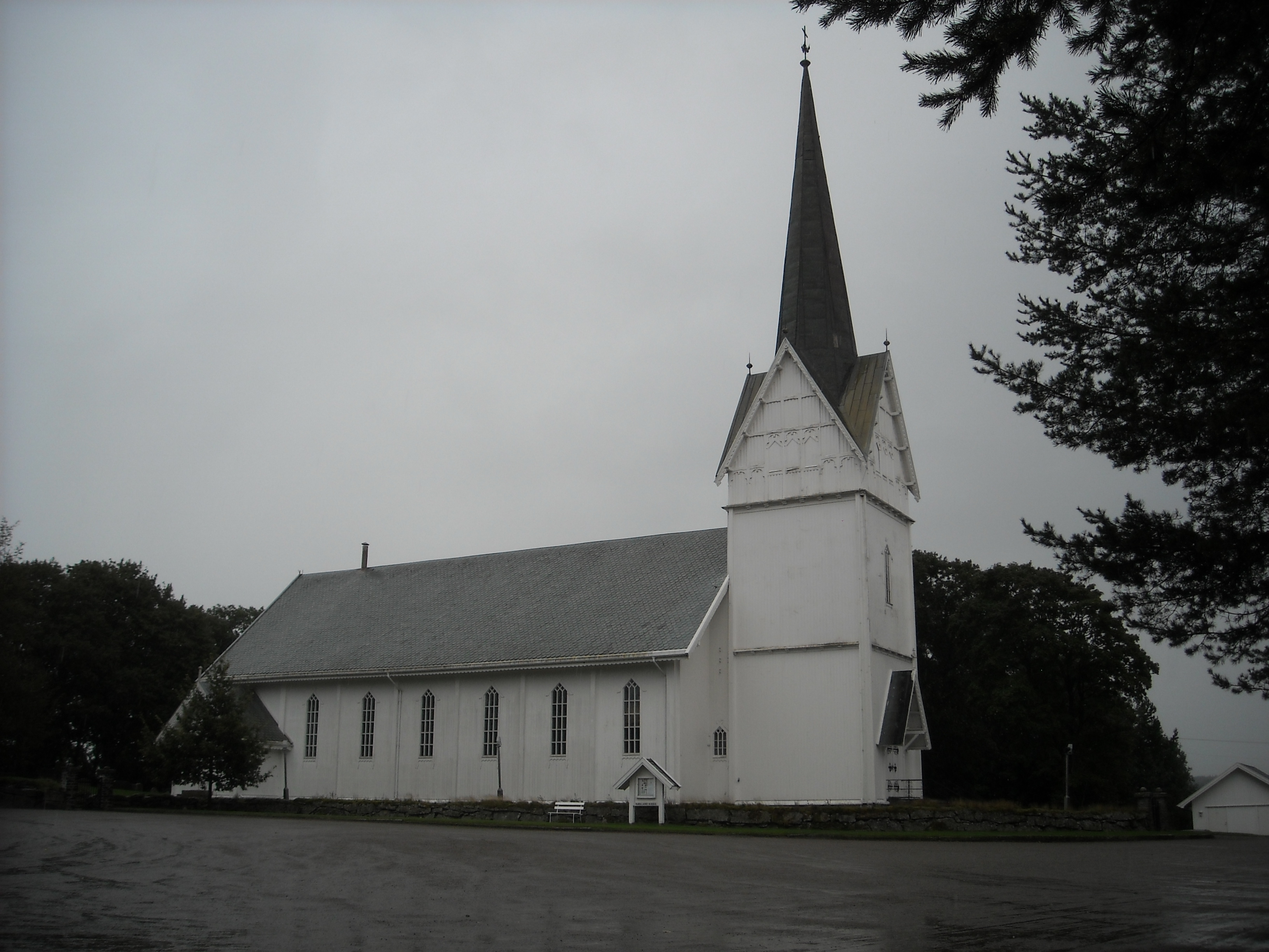 Hærland kirke i Eidsberg kommune.